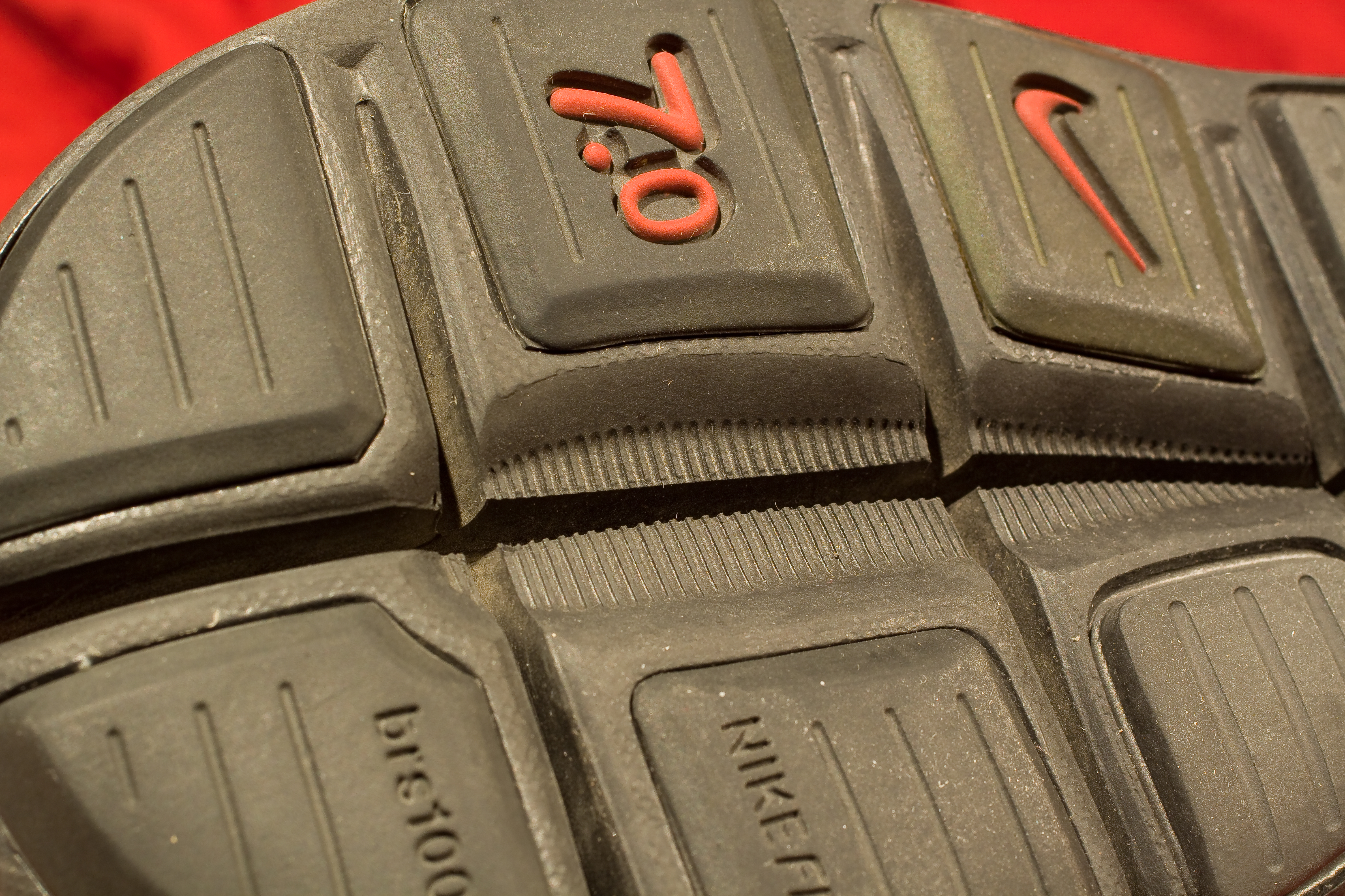 Illustration of distinctive deep groves of a shoe utilising Nike "Free" technology.